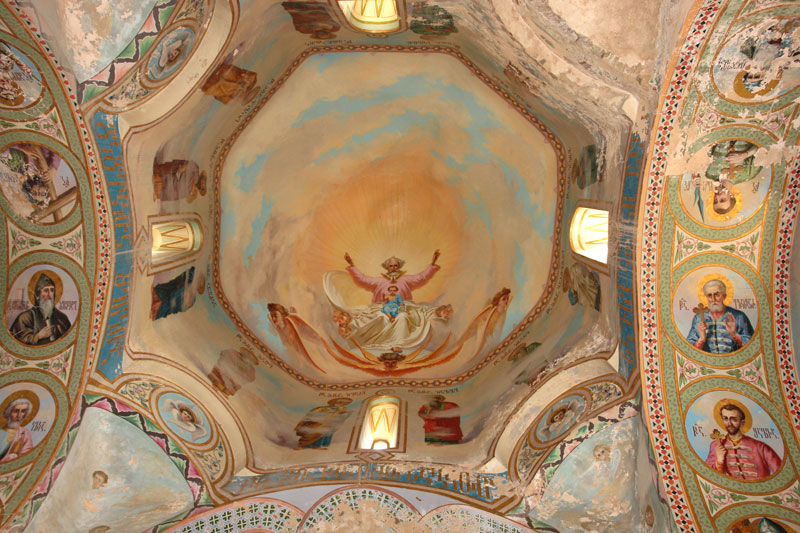 Shio-Mgvime Monastery. The 19th-century murals